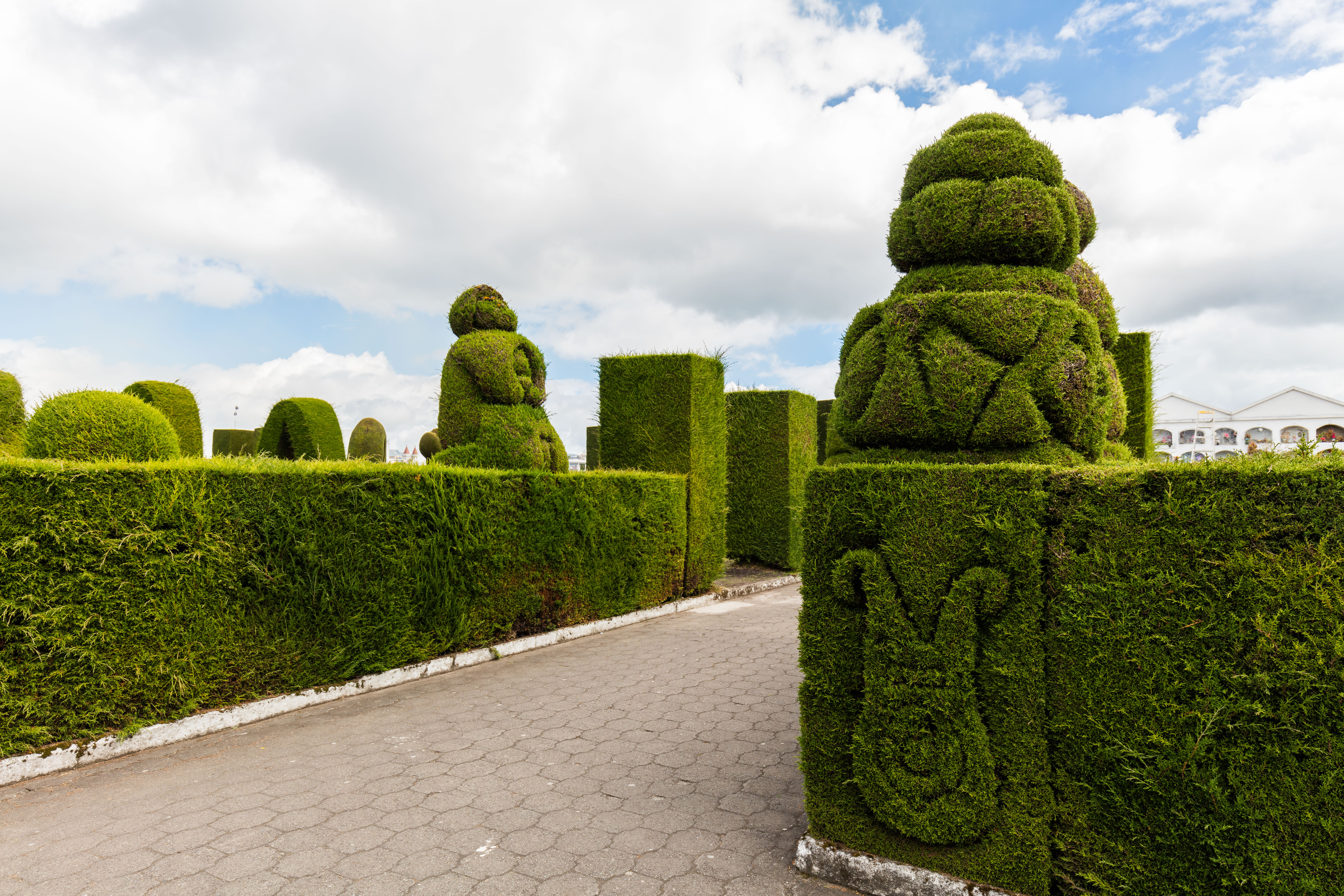 Cemetery, Tulcán, Ecuador